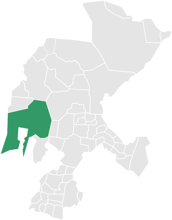 Map of the Municipality of Valparaiso in Zacatecas, México.